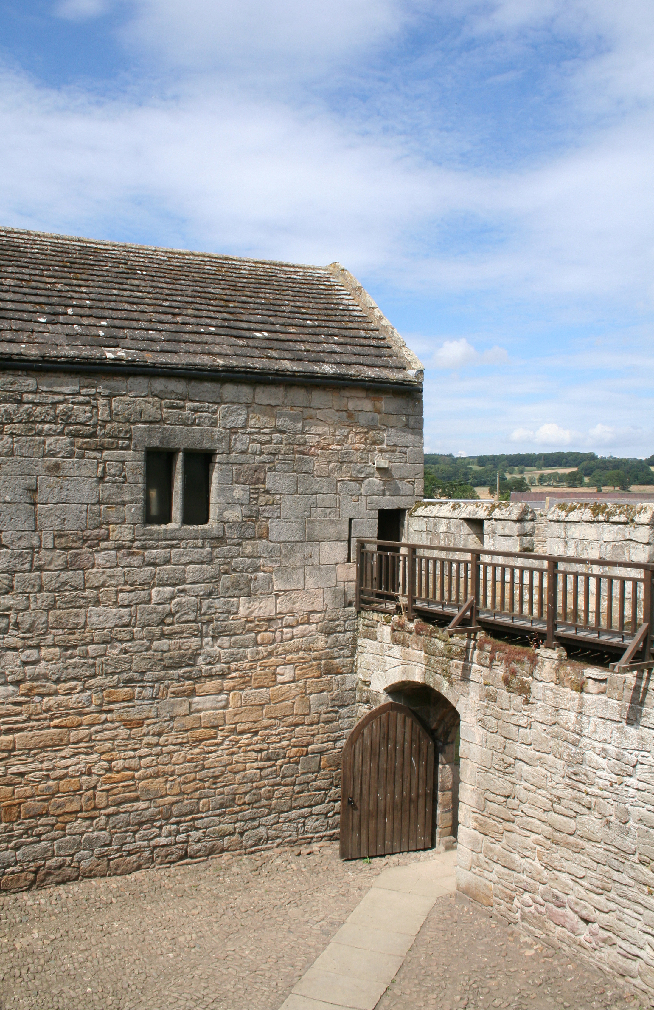 Aydon Castle, Northumberland, Great Britain